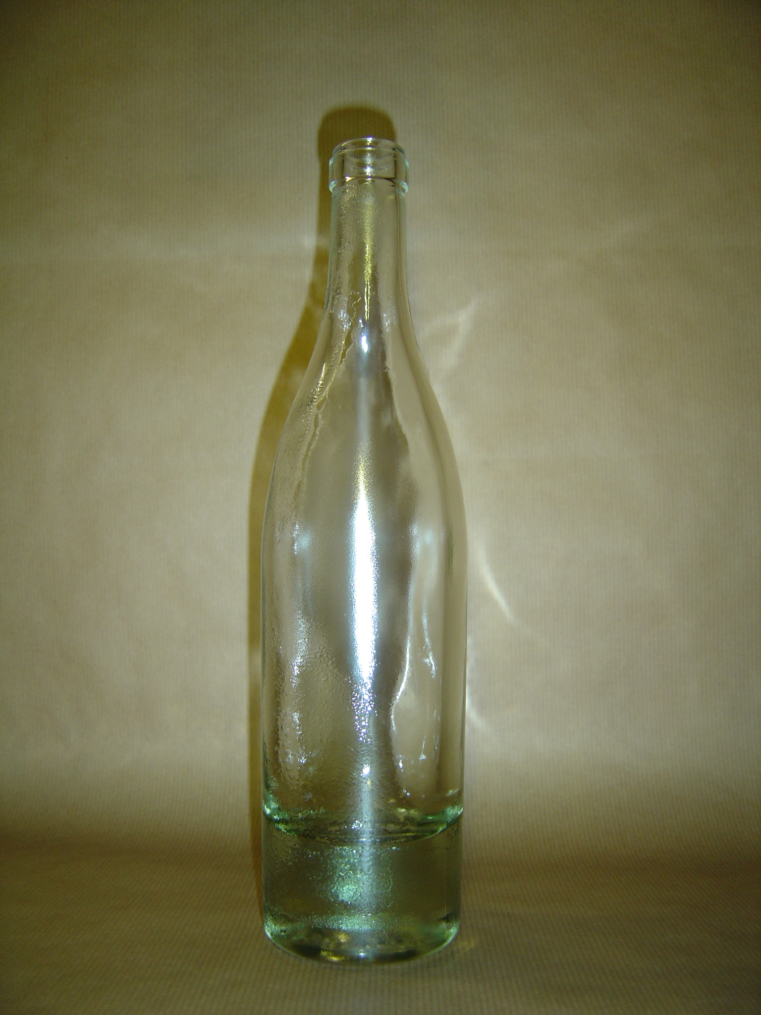 Pot Lyonnais, a serving bottle for wine from Beaujolais (also used elsewhere), which is commonly used for the wine(s) of the house) Foto von User:Ile-de-re, aufgenommen am 08.07.2006